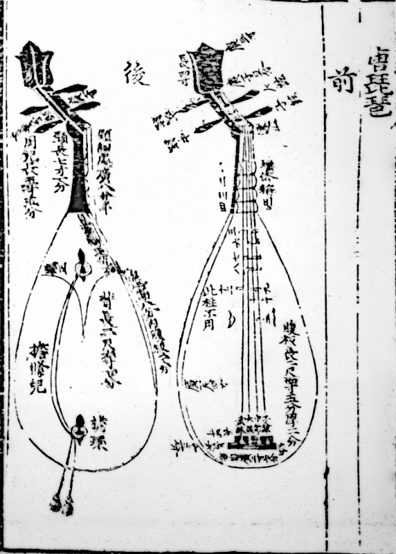 Illustration of a Tang dynasty pipa in Korean work Akhak Gwebeom